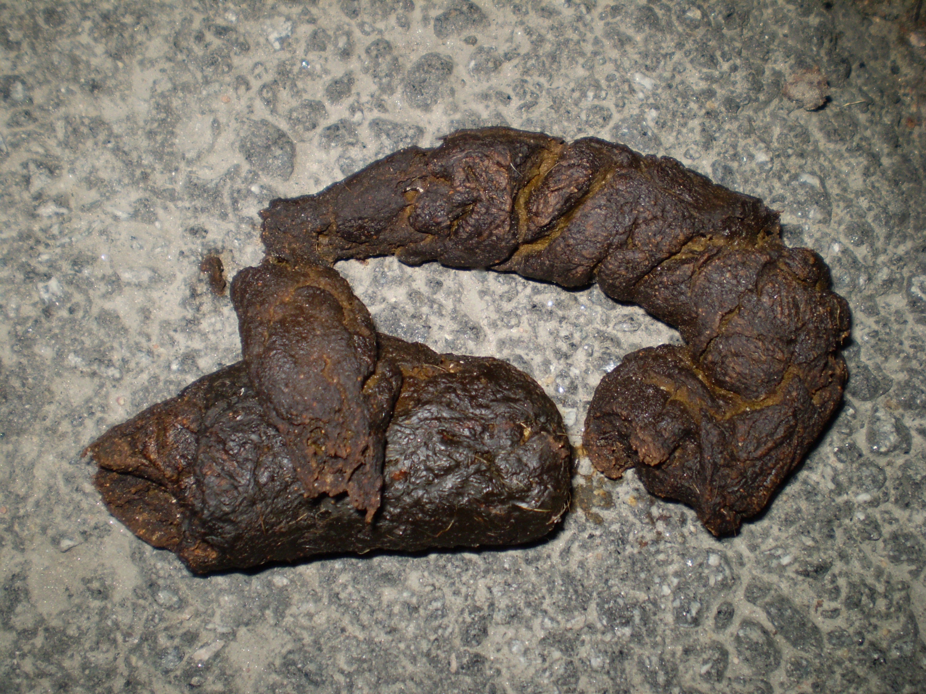 Dog feces